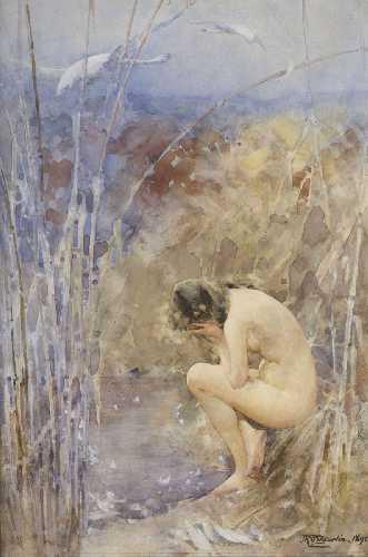 A young woman sits naked, on a tuft amidst the dry reeds around a pond. Her hair is dark, and her head is buried in her hands, as if weeping. Two swans fly over into the purplish sky.